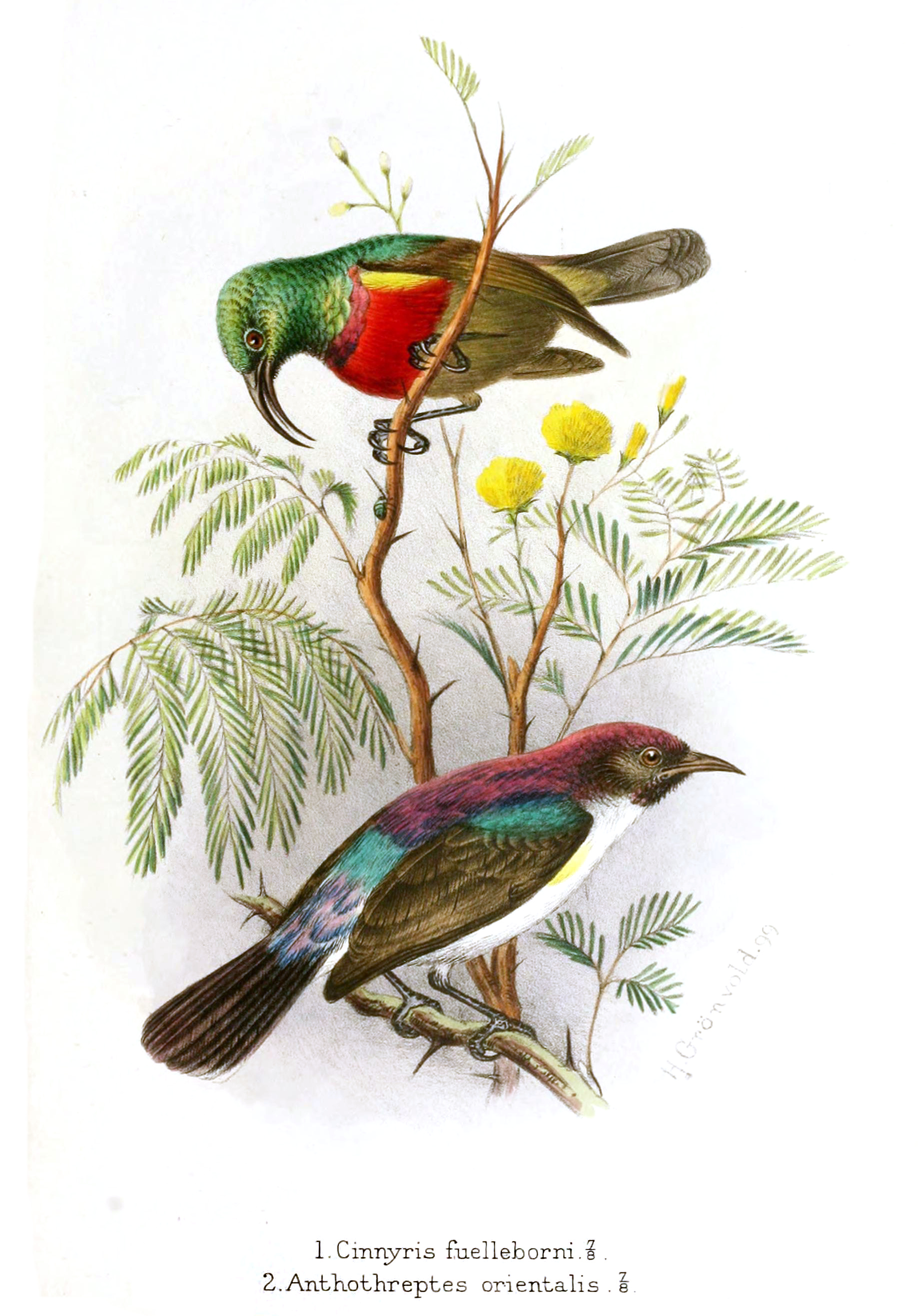 Cinnyris fuelleborni, Anthothreptes orientalis